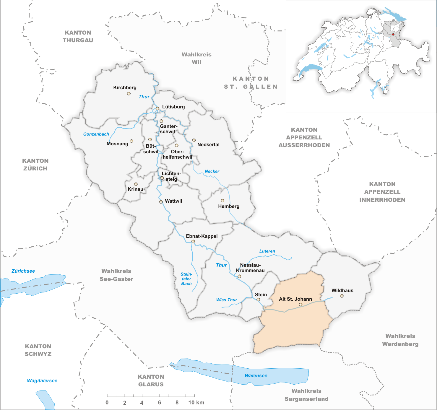 Municipality Alt St. Johann